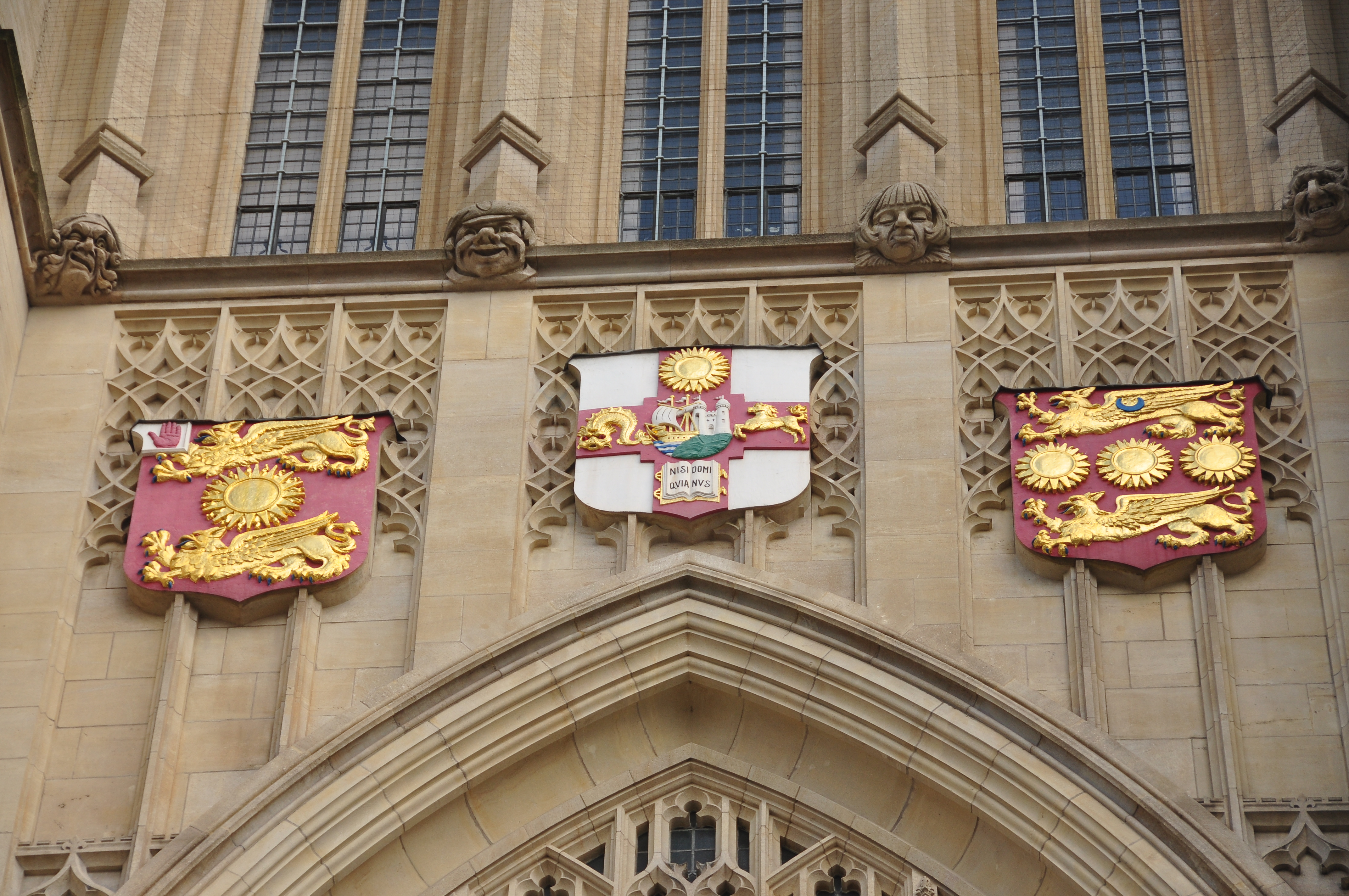 Wills Memorial Building, Bristol University. Bristol University was founded in 1909, largely at his own personal expense, by Henry Overton Wills III (22 December 1828 – 4 September 1911) of Kelston Knoll, near Bath in Somerset, a prominent and wealthy member of the Bristol tobacco manufacturing family of Wills which founded the firm of W. D. & H. O. Wills. He became the first Chancellor. The Wills Memorial Building was built in his memory by his two eldest sons: Sir George Alfred Wills, 1st Baronet (1854–1928), eldest son and heir, of Combe Lodge, Blagdon, Somerset, and of Burwalls, Leigh Woods, Long Ashton, Somerset. He served as managing director and later as president of Imperial Tobacco. He donated about £135,000 for the creation of a hall of residence at Bristol University and in 1923 was created a Baronet "of Blagdon". Together with his brother Henry Herbert Wills he built the Wills Memorial Building in Bristol in memory of his father. Henry Herbert Wills (1856-1922), 2nd son, also active in the family tobacco firm of WD & HO Wills. The arms of the University are shown at centre, with the arms at left of Sir George Alfred Wills, 1st Baronet (with a canton of a baronet (Red Hand of Ulster)) and at right of Henry Herbert Wills, with a crescent for the difference of a second son. The arms of the surviving Wills baronetcy "of Hazelwood" (1904) and of Northmoor (1897) (Baron Dulverton) use the arms at right (Gules, three suns in splendour fesswise between two griffins passant or) whilst the arms of the Wills baronets of Blagdon (1923) use the arms at left (Gules, one sun in splendour between two griffins passant or) (Montague-Smith, P.W. (ed.), Debrett's Peerage, Baronetage, Knightage and Companionage, Kelly's Directories Ltd, Kingston-upon-Thames, 1968)